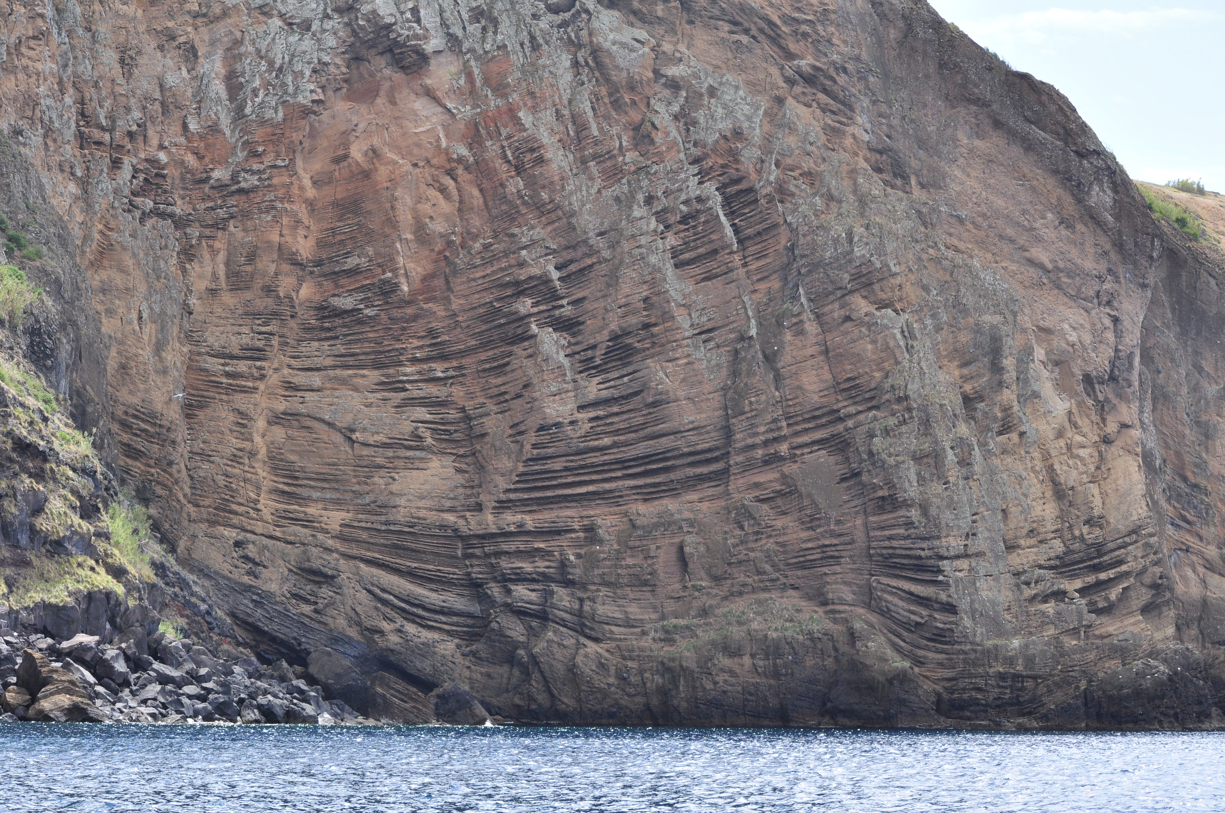 Cliff on the south coast of São Jorge, Açores